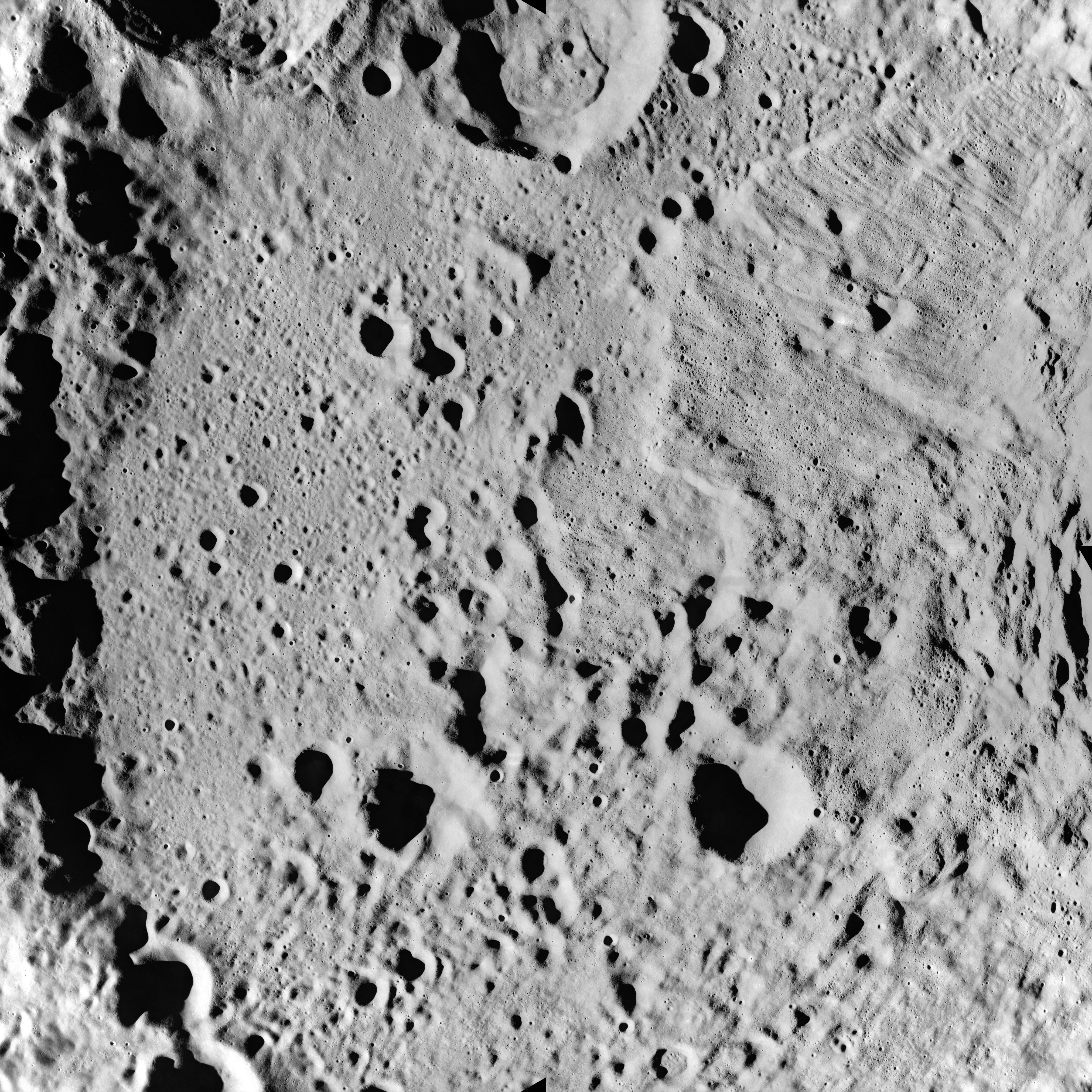 Most of Fermi, on the far side of the moon. The west rim of the younger Tsiolkovskiy crater is on the right edge of the image. The low sun angle of 13 degrees accentuates topography. Taken from an altitude of approximately 110 km on Revolution 74 of the Apollo 17 mission.